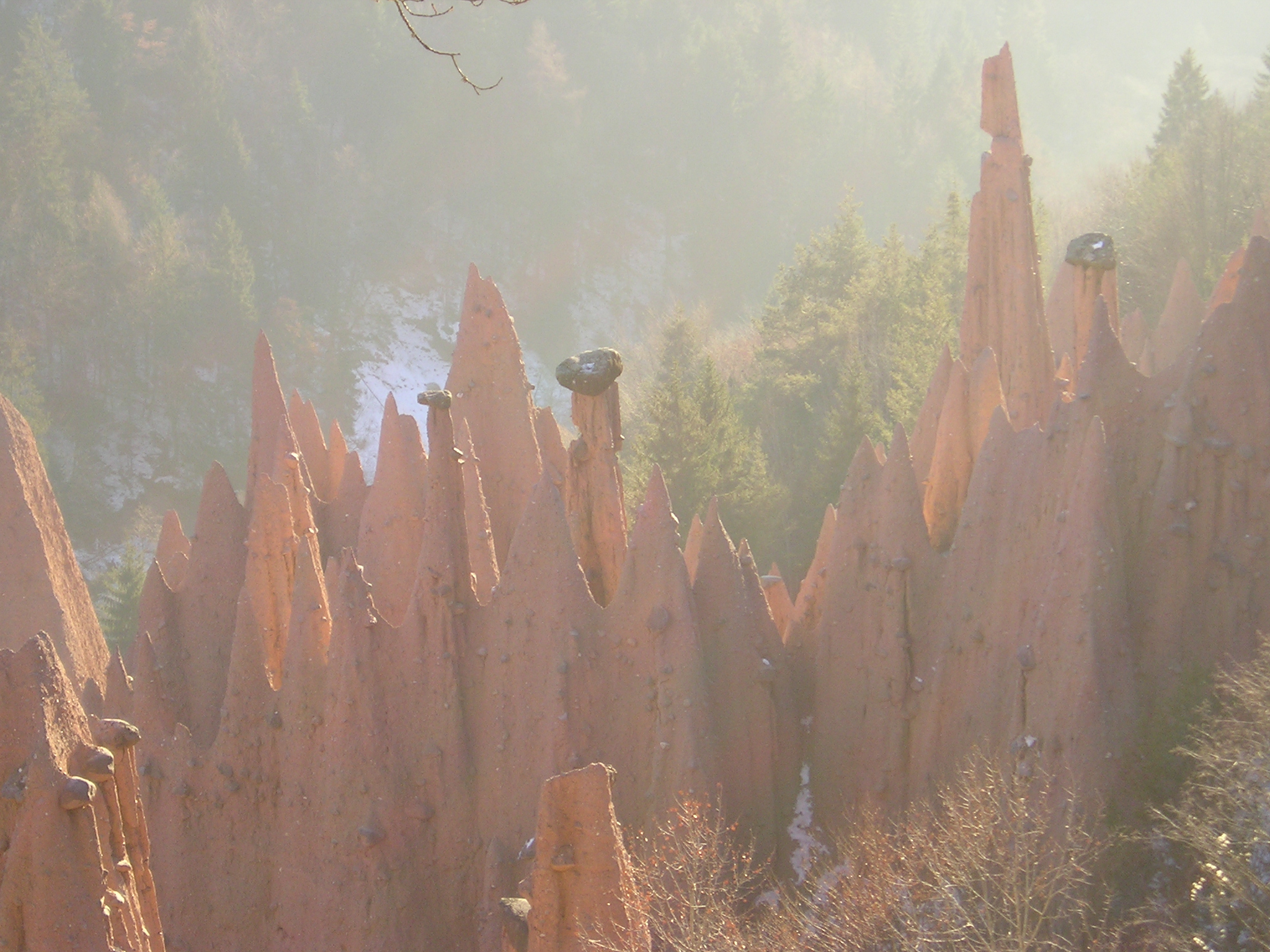 Earth pyramids in Renon-Ritten, South Tyrol.